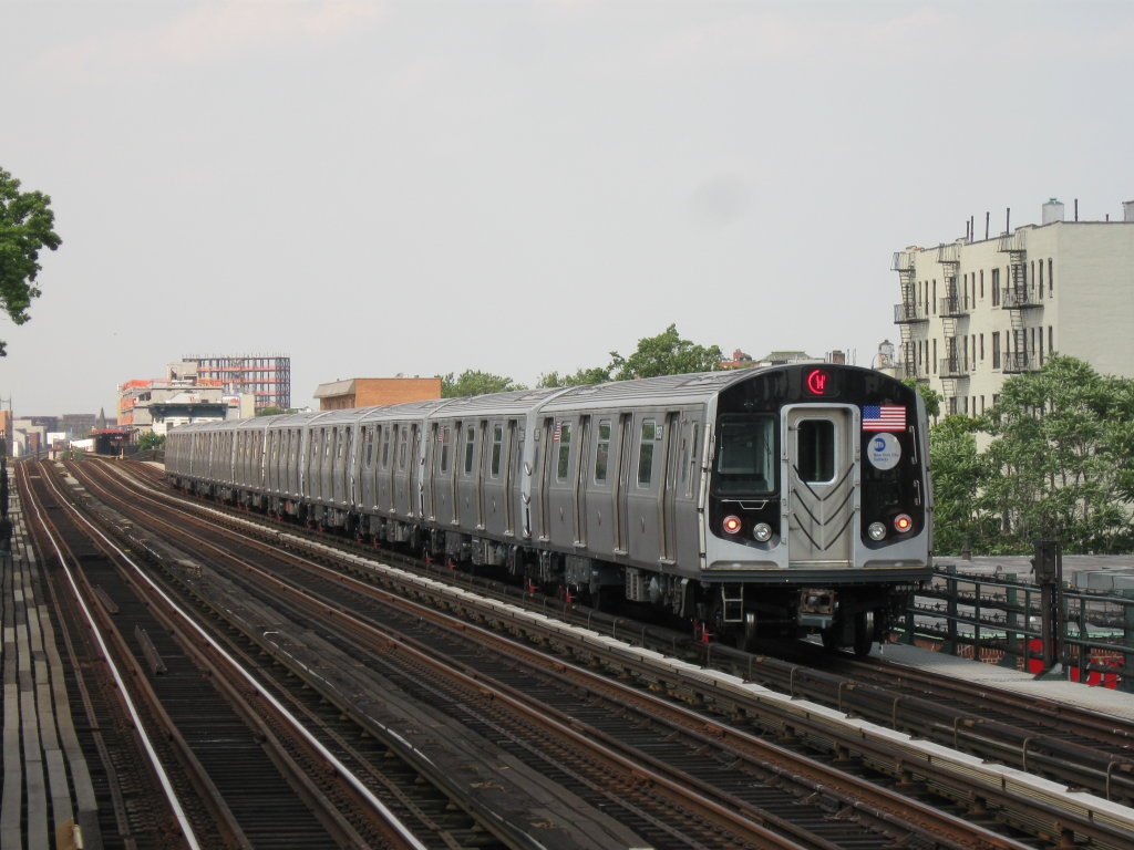 W train leaves the 36 Avenue/Washington Avenue station.